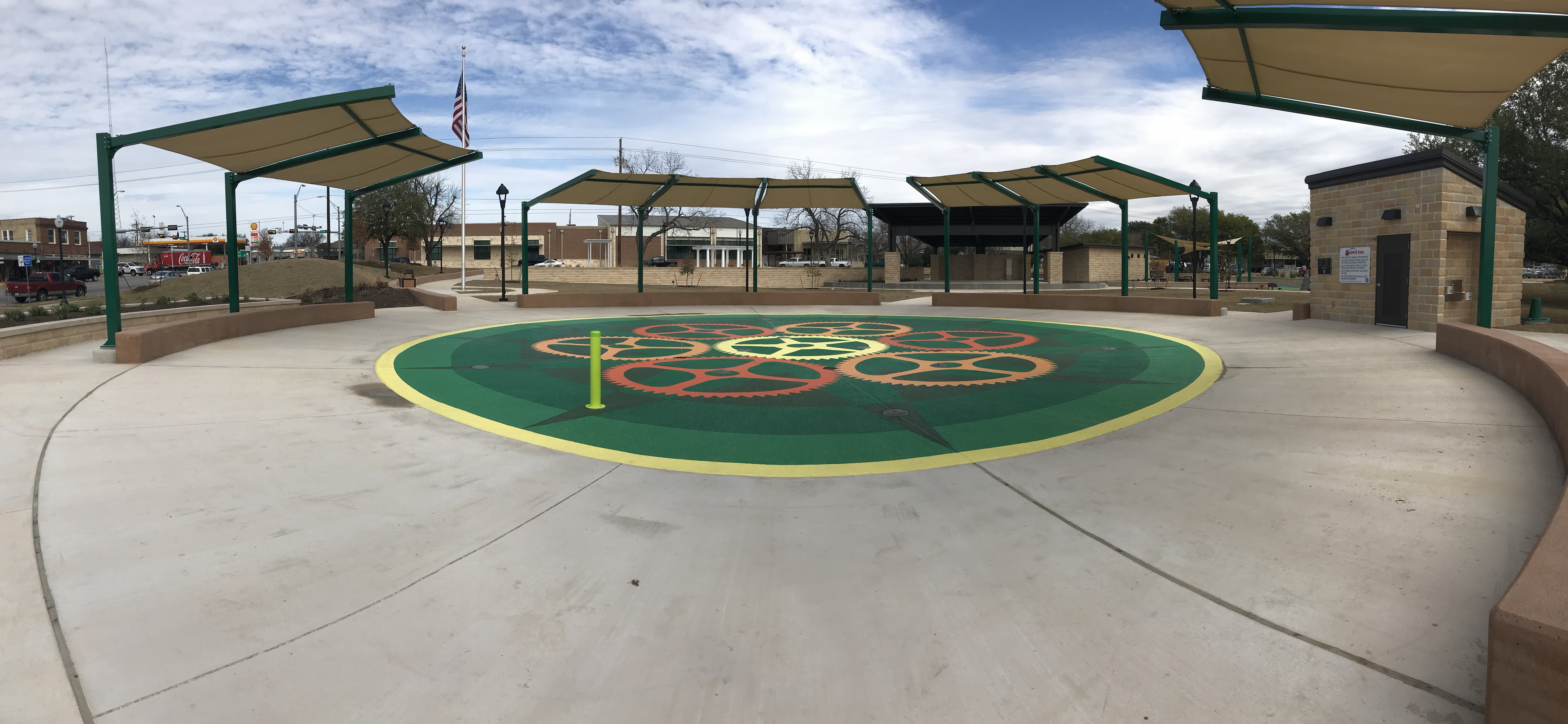 Heritage Square Park is located in Downtown Taylor. Renovations of the park took place in 2018.